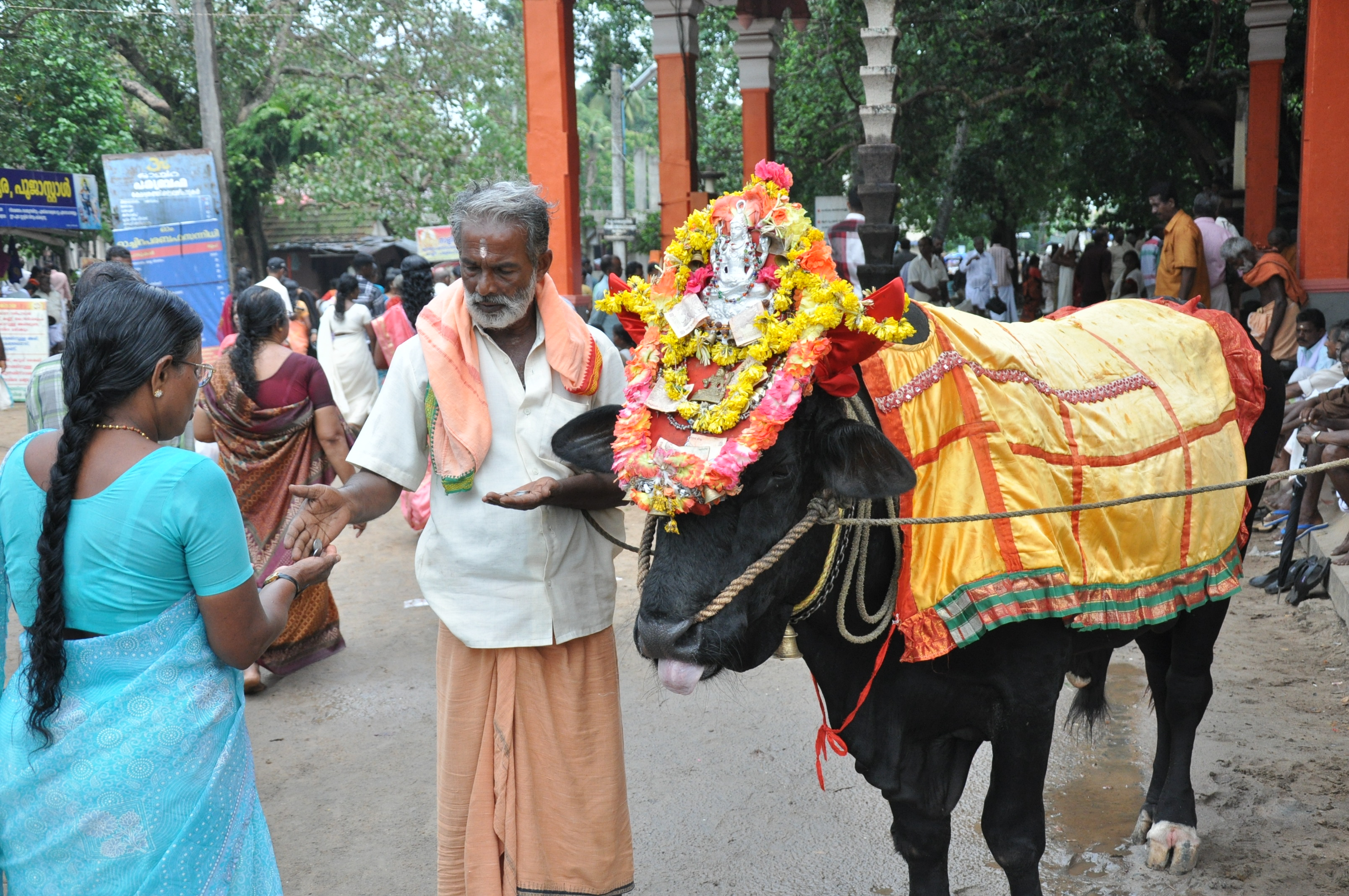 Oachira ox